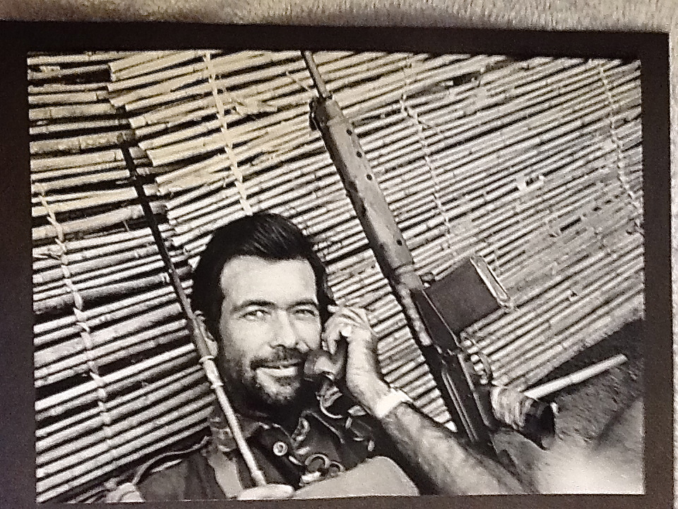 This is a picture of Allan Savory